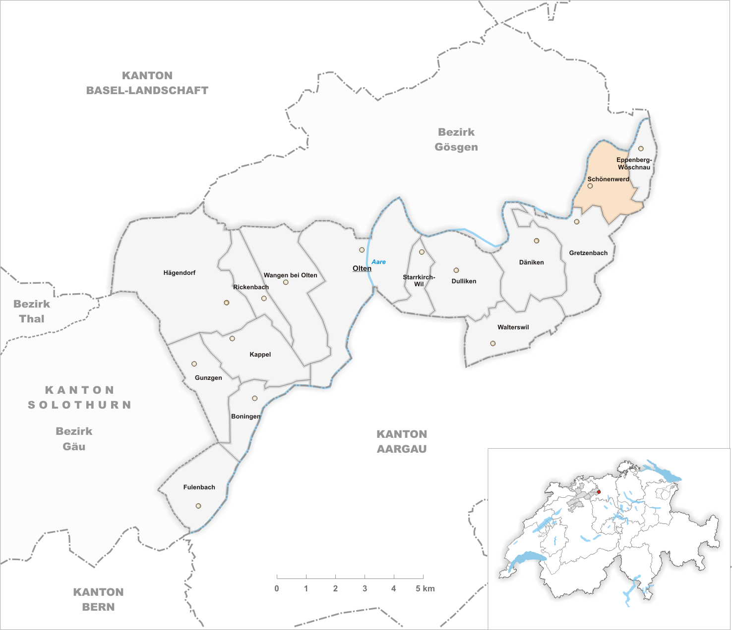 Municipality Schönenwerd